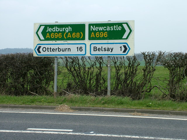 Road signs at the B6309, A696 junction Just in case you do not spot the milestone at this junction there are modern roadsigns on the other side of the road.